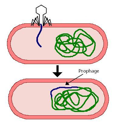 formation of a prophage